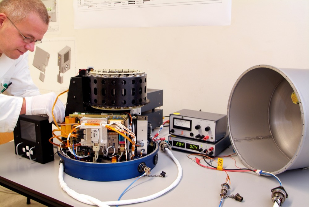 Carroussel of High Intensity Discharge lamps is tested in the laboratory. This carroussel is part of the Arges research project of Eindhoven University of Technology, and is to be used by astronaut André Kuipers in zero gravity during the 2004 Delta mission to the International Space Station.